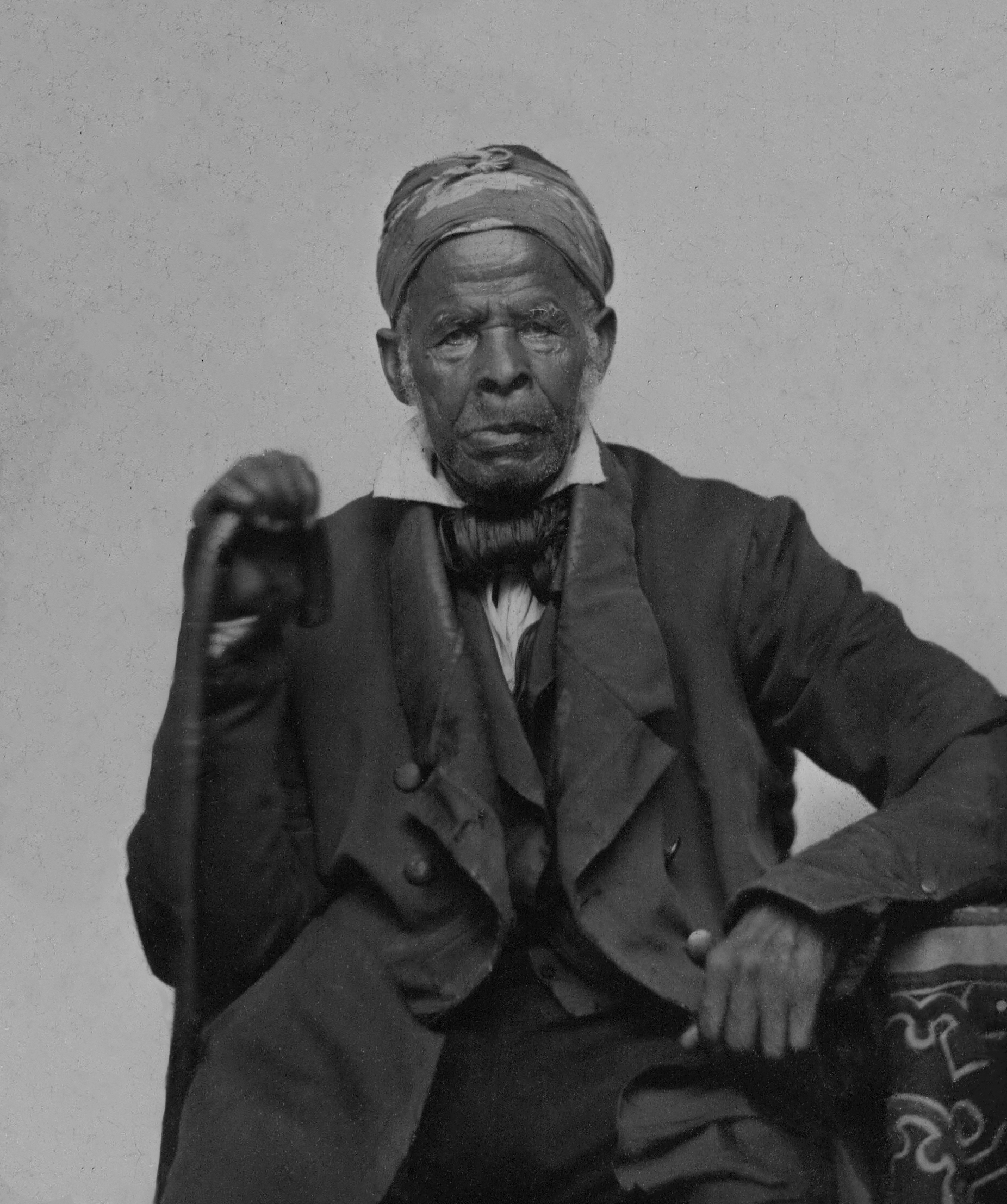 "Uncle Marian, a slave of great notoriety, of North Carolina," ambrotype daguerreotype, by unknown photographer. Half-length formal portrait. Identification from manuscript note found underneath the plate. Image courtesy of the Randolph Linsly Simpson African-American Collection, Beinecke Rare Book & Manuscript Library, Yale University.[1]